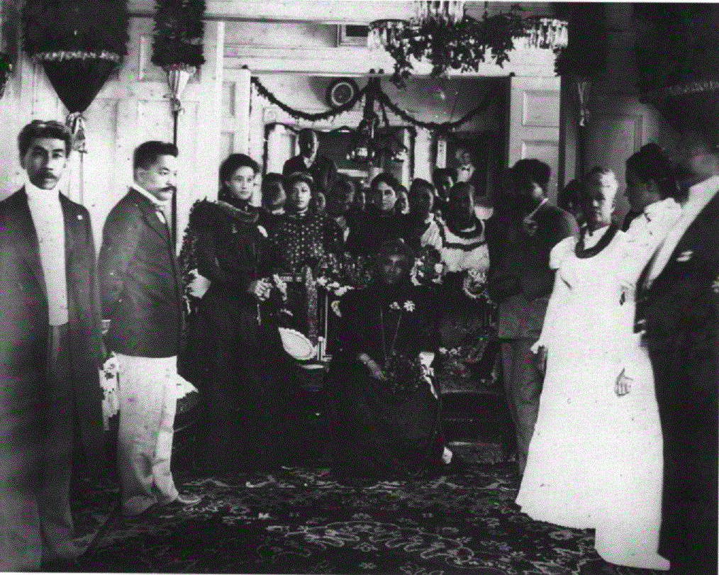 Queen Liliuokalani, Princess Kaiulani, Prince David Kawananakoa and Prince Jonah Kūhiō Kalanianaʻole shuttered up in Washington Place mourning on the day of the flag of Hawaii was lowered down for the last time after the Annexation of Hawaii to the United States. Joseph Helehule, Liliuokalani's private secretary, stands at the far left